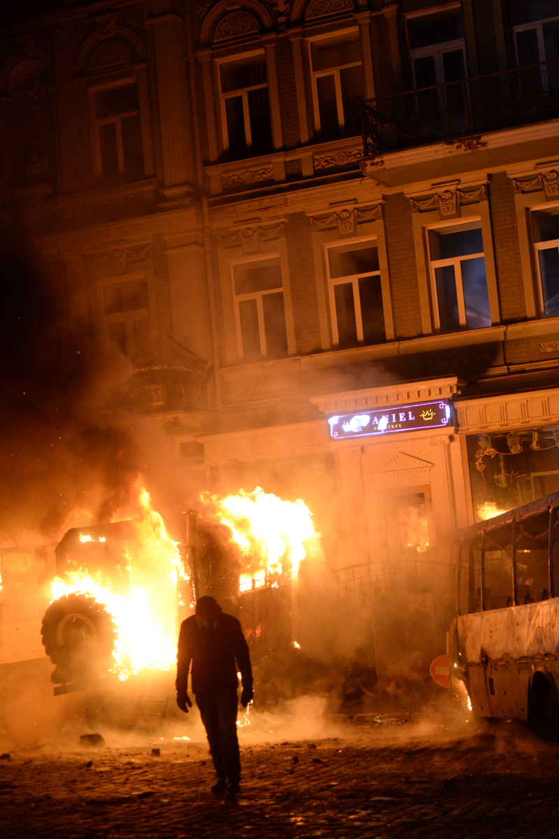 Dynamivska str barricades on fire. Euromaidan Protests. Events of Jan 19, 2014-5